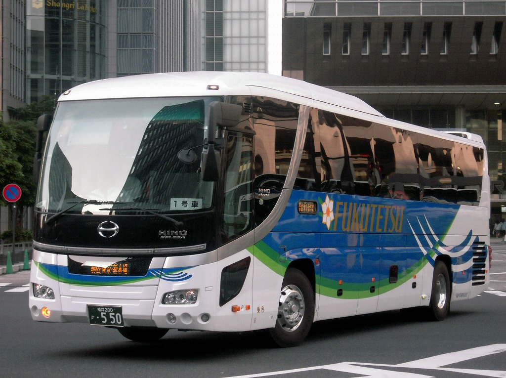 Fukui Railway bus Hino S'ELEGA Highwaybus "Dream Fukui"(Fukui-Tokyo)